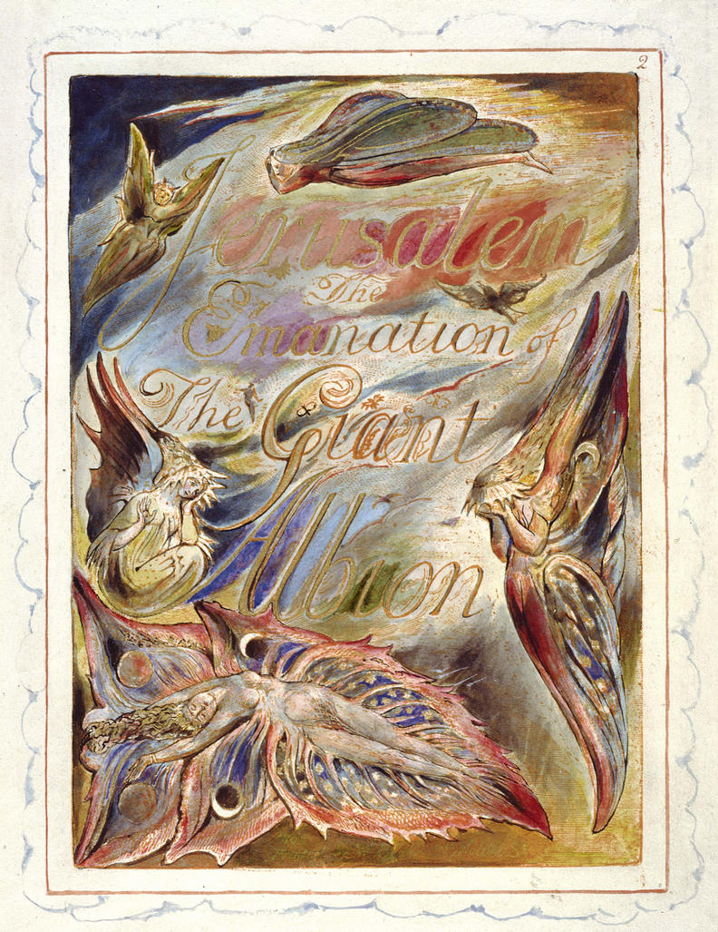 Plate 2 of Jerusalem the Emanation of the Giant Albion, copy E. Relief etching with watercolour additions.